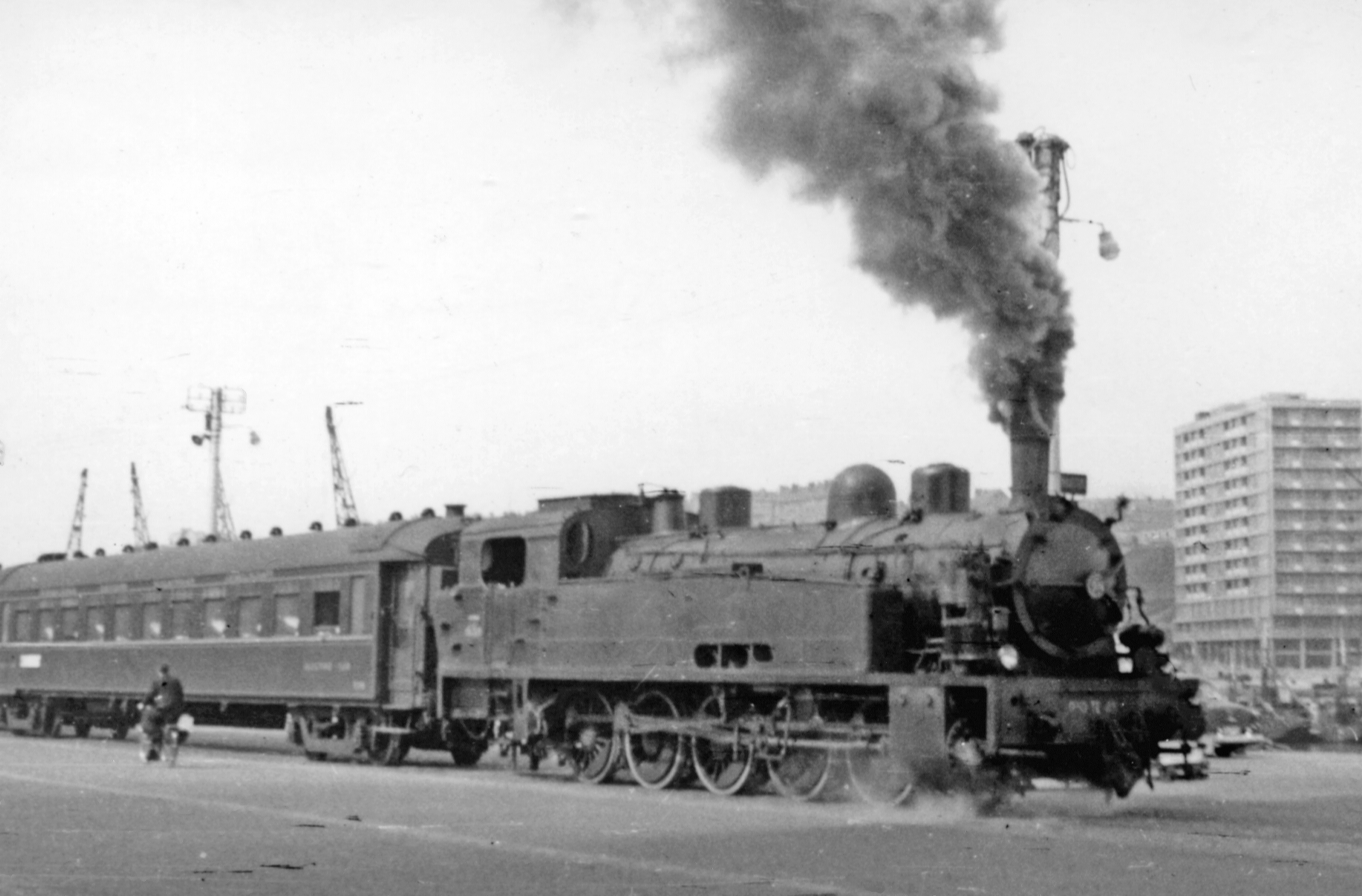 Nord 0-10-0T shunting at Boulogne Maritime, 1956.